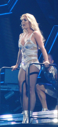 Spears